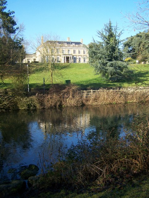 Manor House Also known as Douce's Manor. As seen from Manor Park Country Park. Both were once part of an 18th Century Country estate created by Thomas Douce. St.Leonard's Street runs in front of the house.